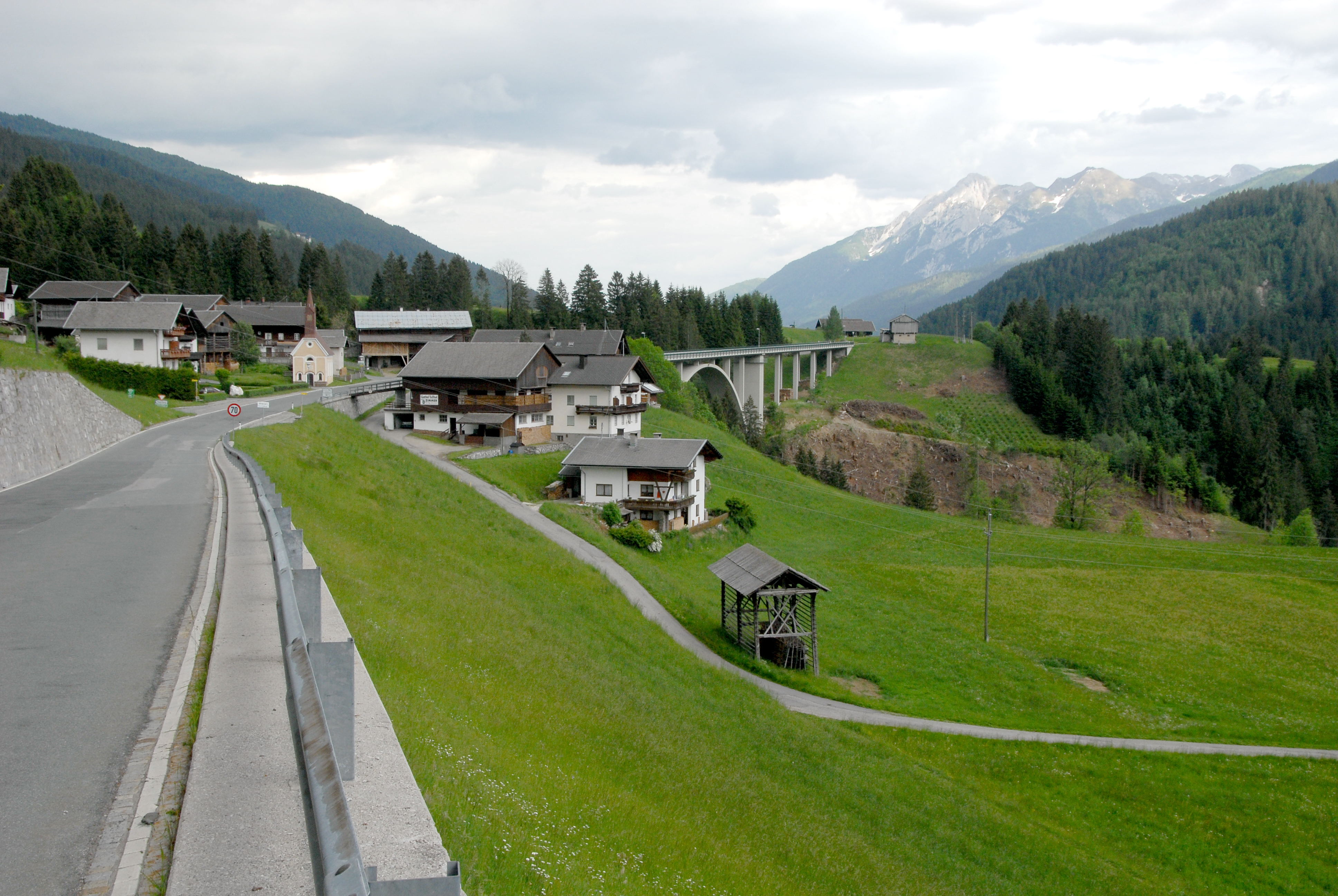 Saint Radegund, municipality Lesachtal, district Hermagor, Carinthia / Austria / EU